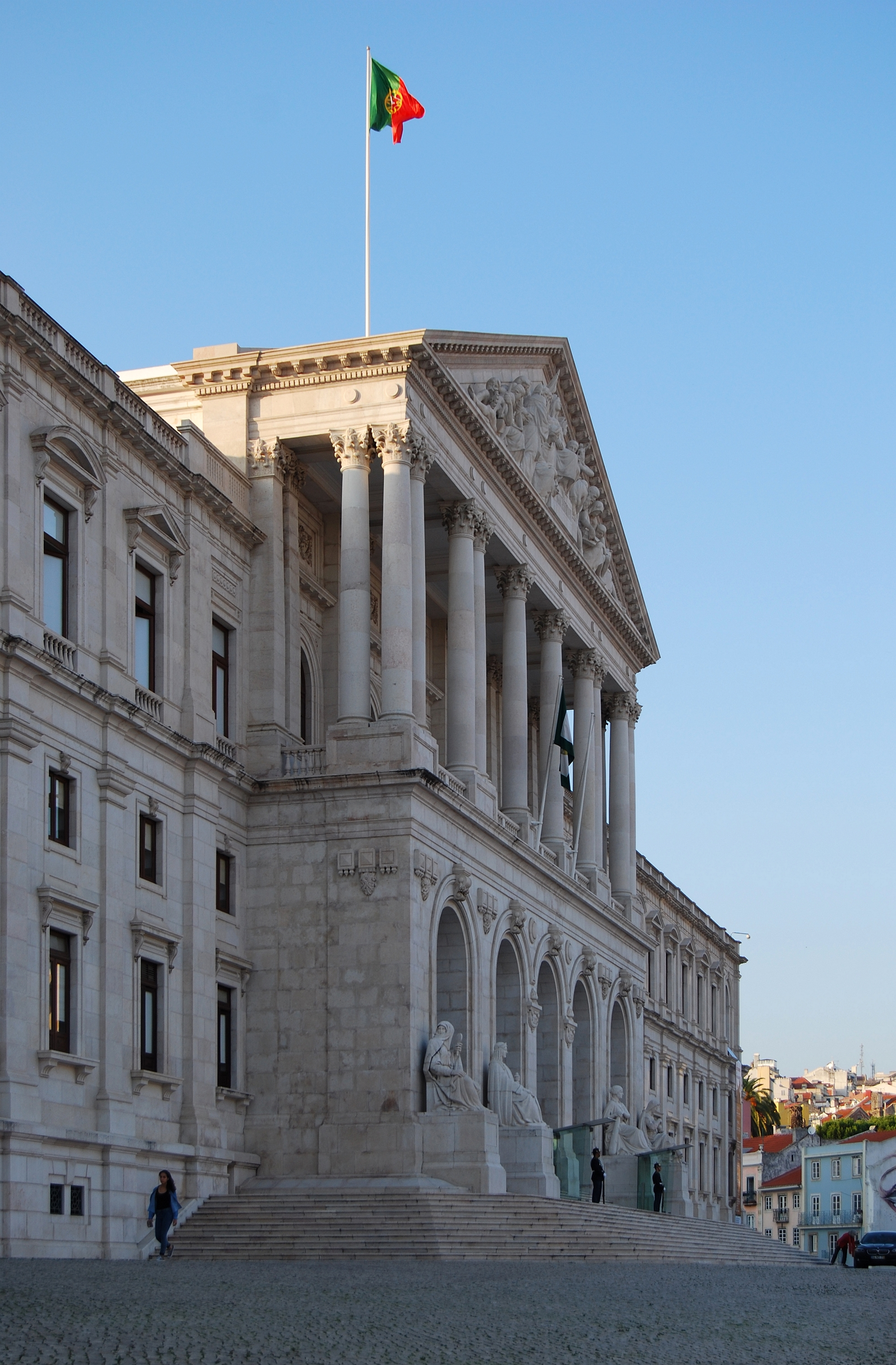 The Palácio de São Bento (home of Assembleia da República, the Portuguese parliament) in Lisbon.